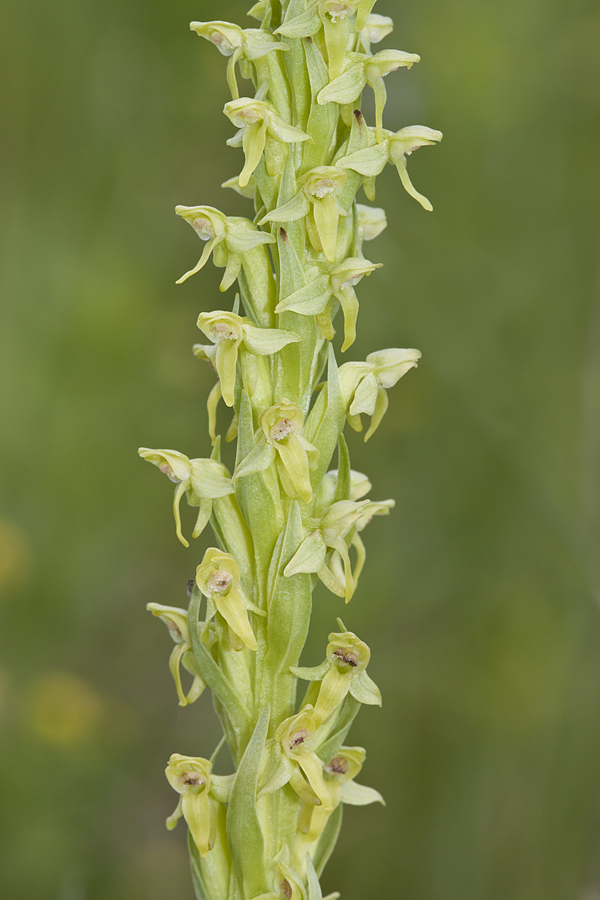 Platanthera hyperborea. A orchid. Red Rock Lakes National Wildlife Refuge, Beaverhead Co., ID, USA. July 13